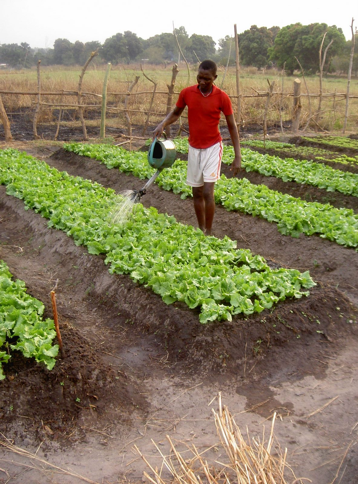 Boston lettuce plantation in northern CAR. The humanitarian crisis striking CAR has put the 74 percent of the population working in the Agricultural sector in great difficulty.